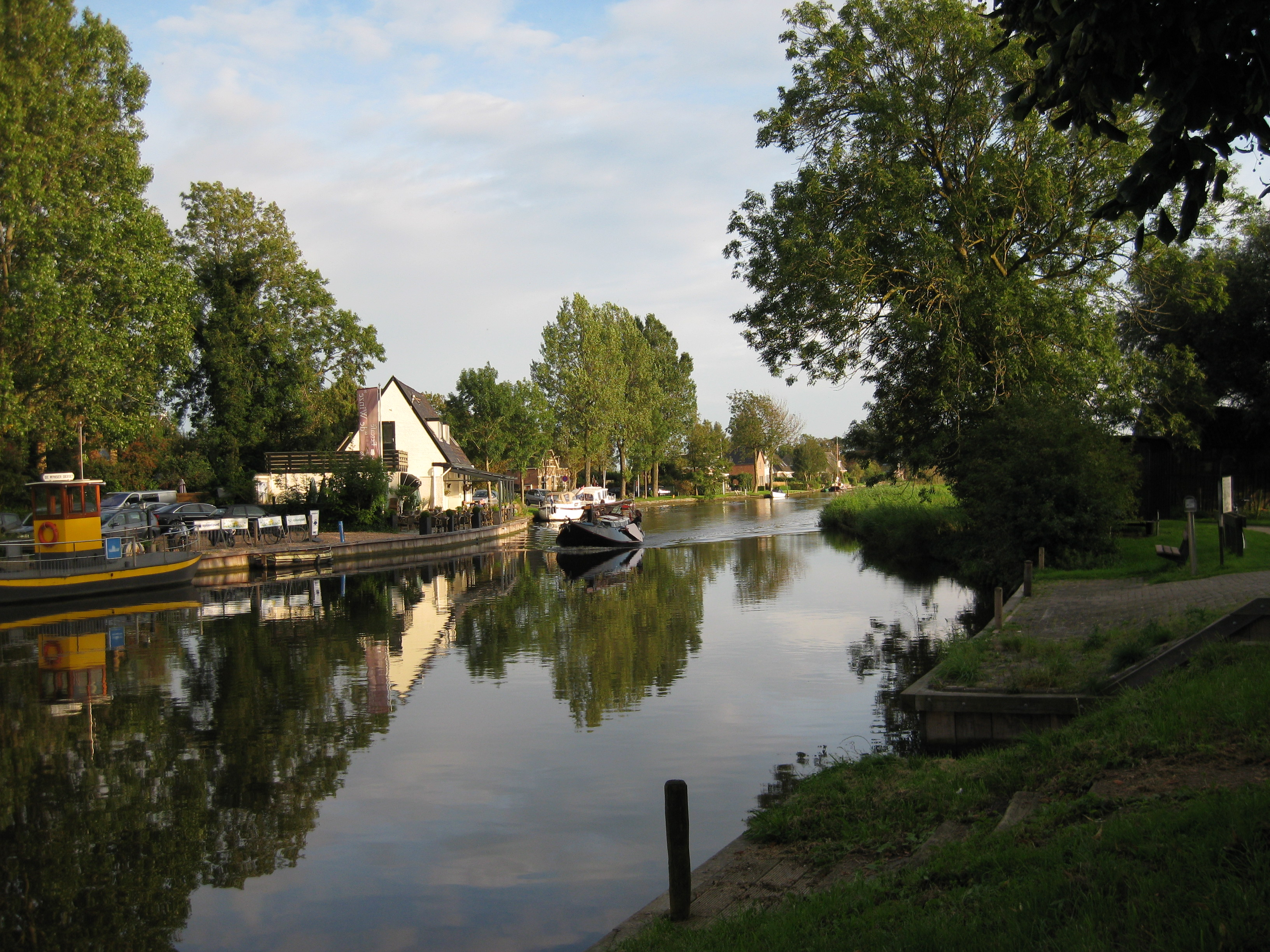 Wijns (county Friesland, The Netherlands). Canal "Dokkumer Ee" with (pedestrian) ferry location in Wijns.